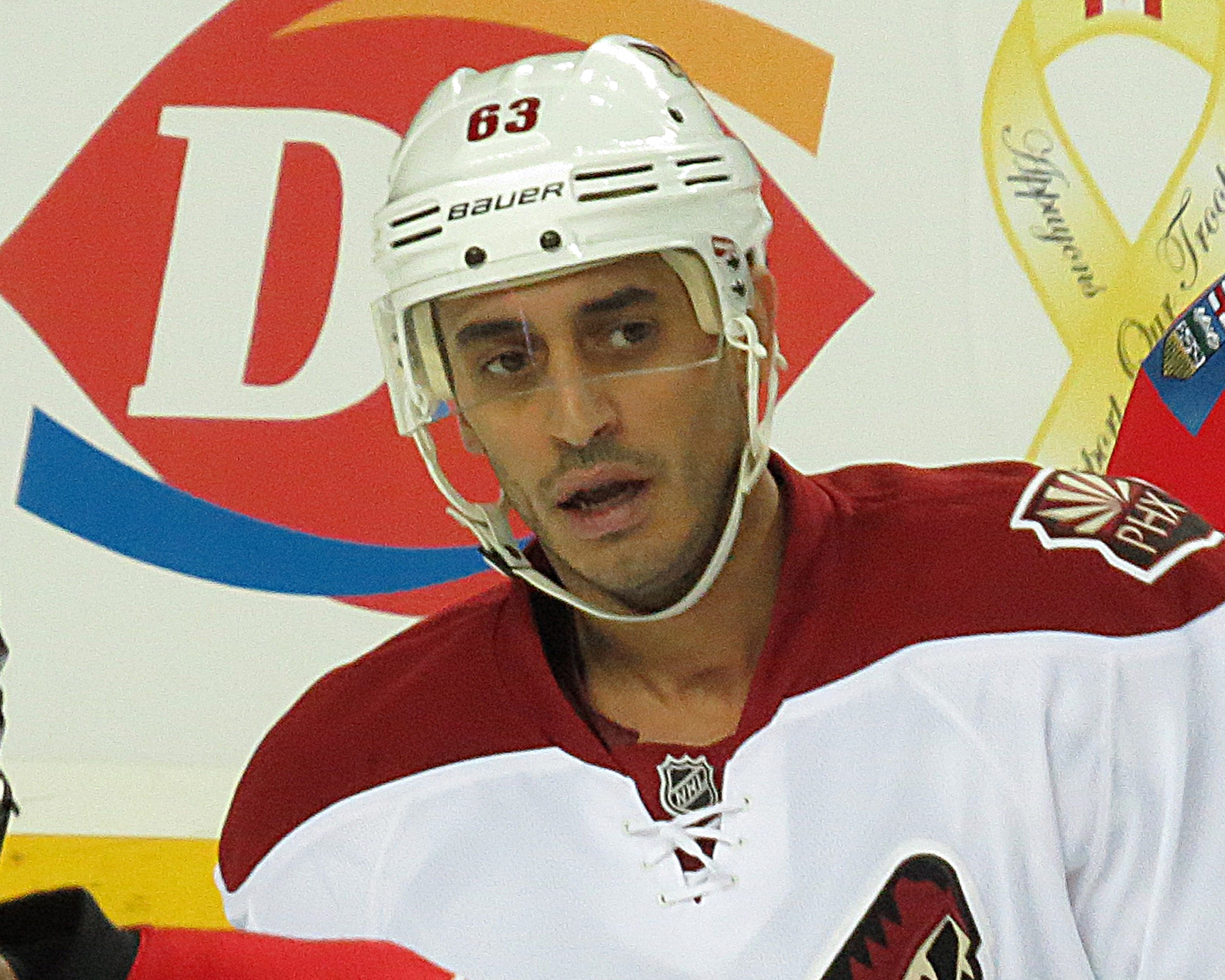 Ribeiro with the Coyotes in the 2013-14 season.